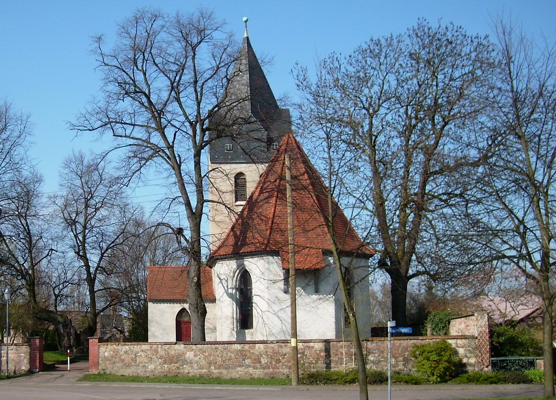 Church in Grossbadegast (Südliches Anhalt, Anhalt-Bitterfeld district, Saxony-Anhalt), view from the east